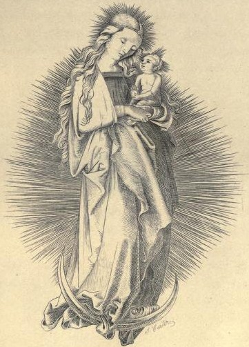 Virgin and Child (after Albert Durer)